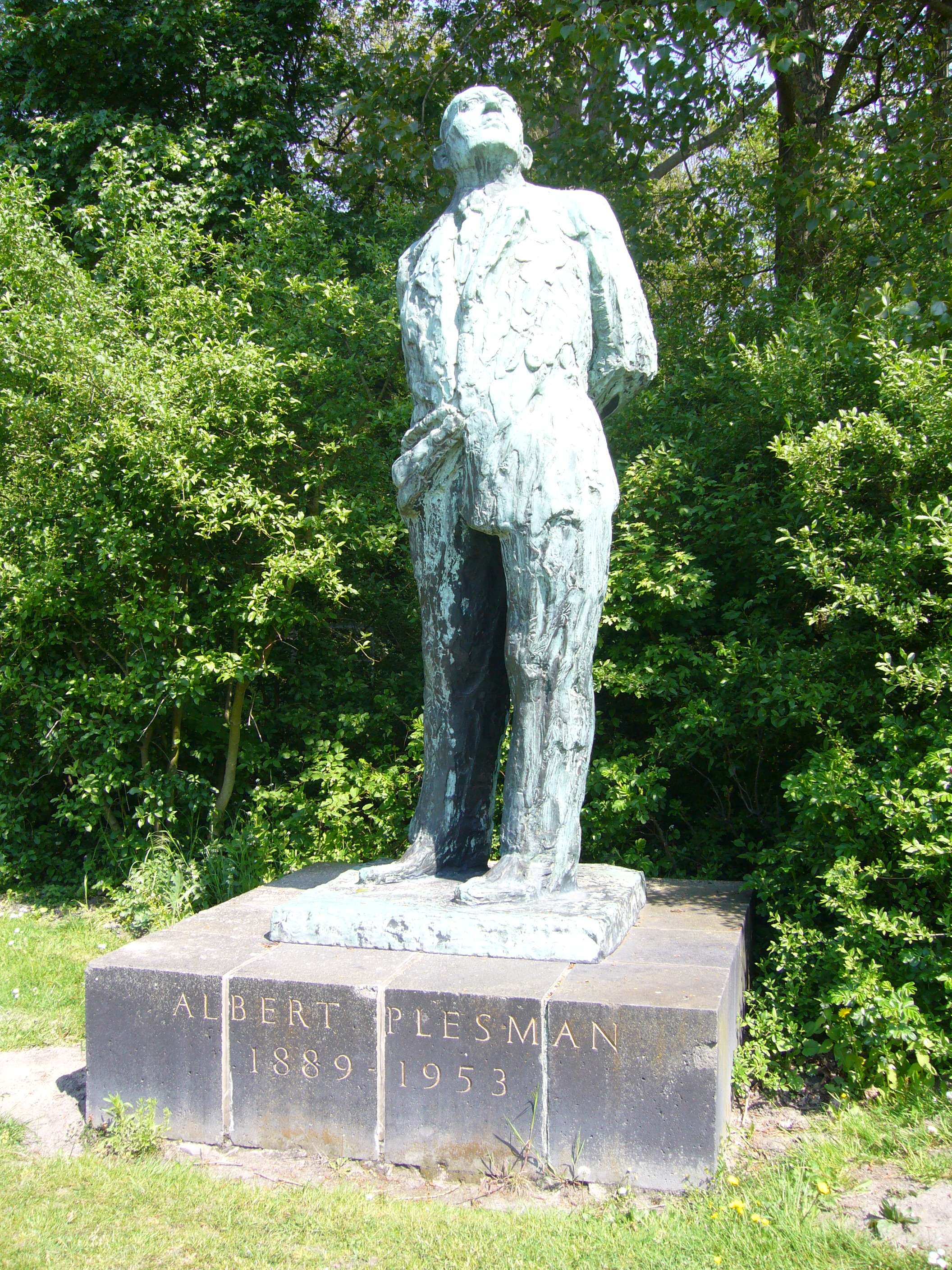 Albert Plesman, founder of KLM